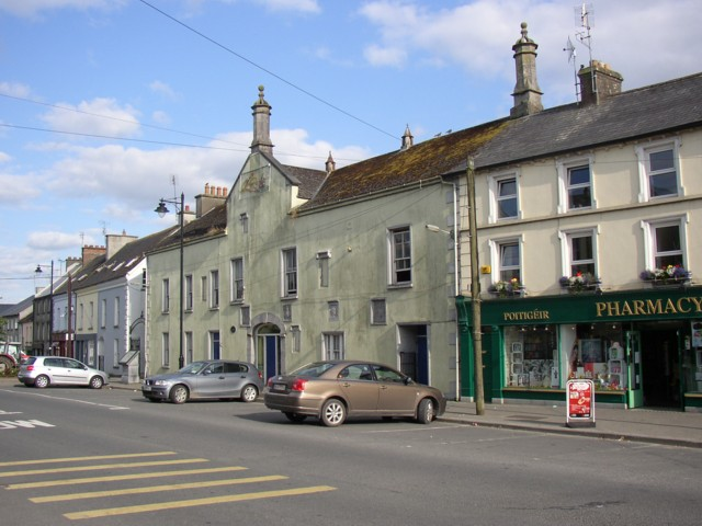 'Town Hall', Fethard, Co. Tipperary. This large building was erected c.1600 as an almshouse for six indigent men. Their accommodation was on the first floor, which was reached by external staircases from the rear of the building (facing the churchyard). It was later used as a town hall (and market house) from some time after 1763.